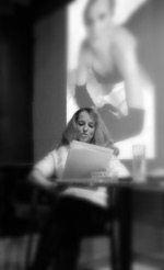 Andrea Mohr during her show "This is not a Striptease".